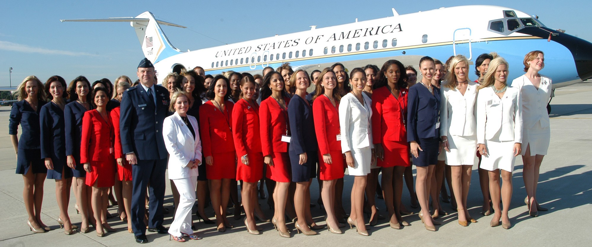 Colonel Russell Frasz, 89th Airlift Wing vice commander, poses with the 51 Miss America 2004 contestants and Miss America 2003 on the Andrews flight line as part of their tour of Andrews AFB, Md.